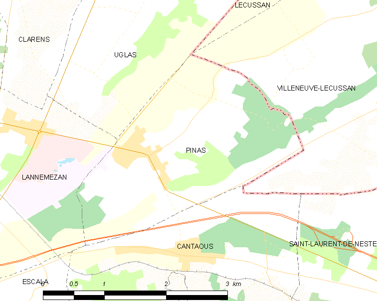 Map of French municipality